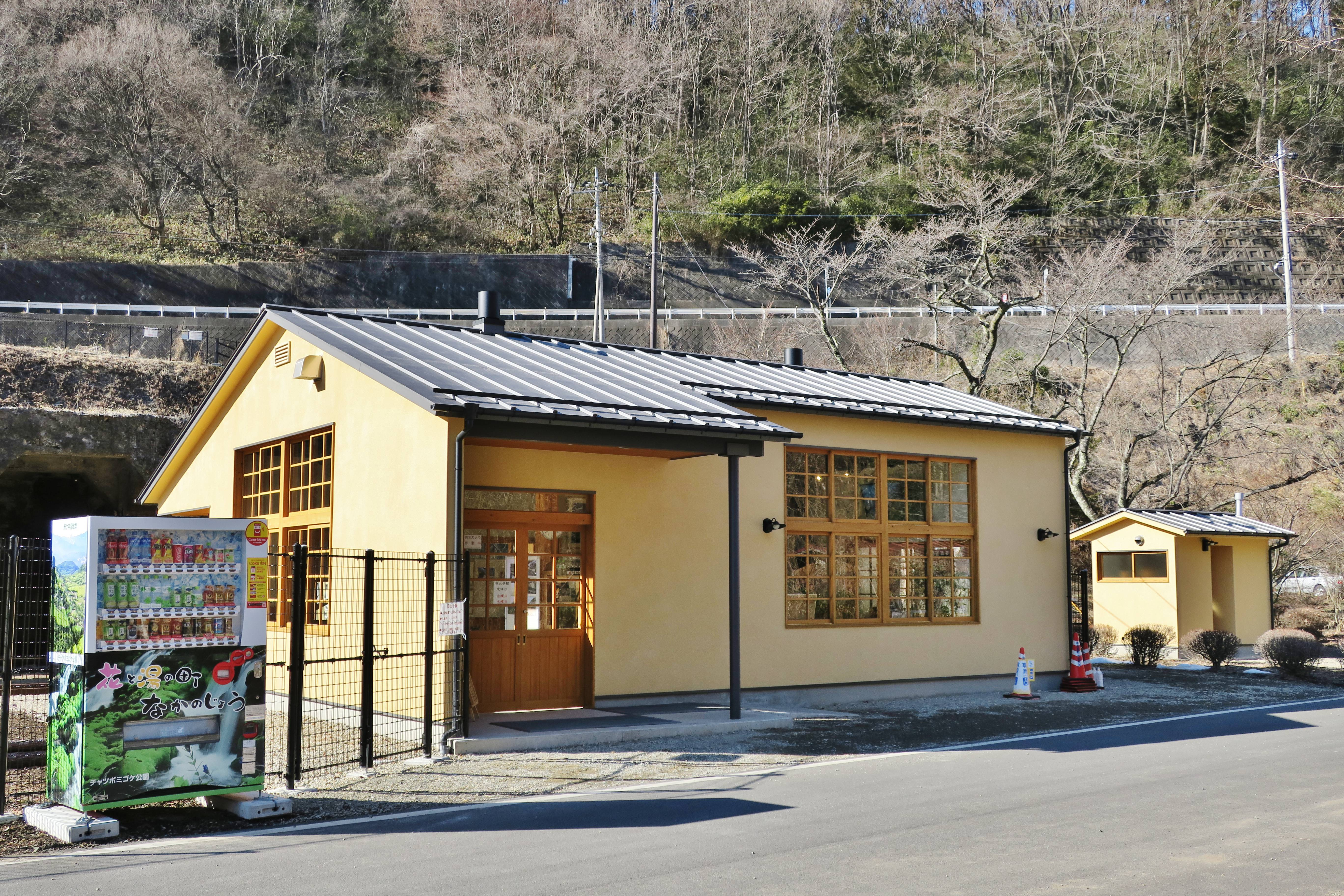 Oshi Station.